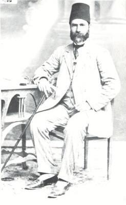 Portrait of Said al-Shawa, mayor of Gaza